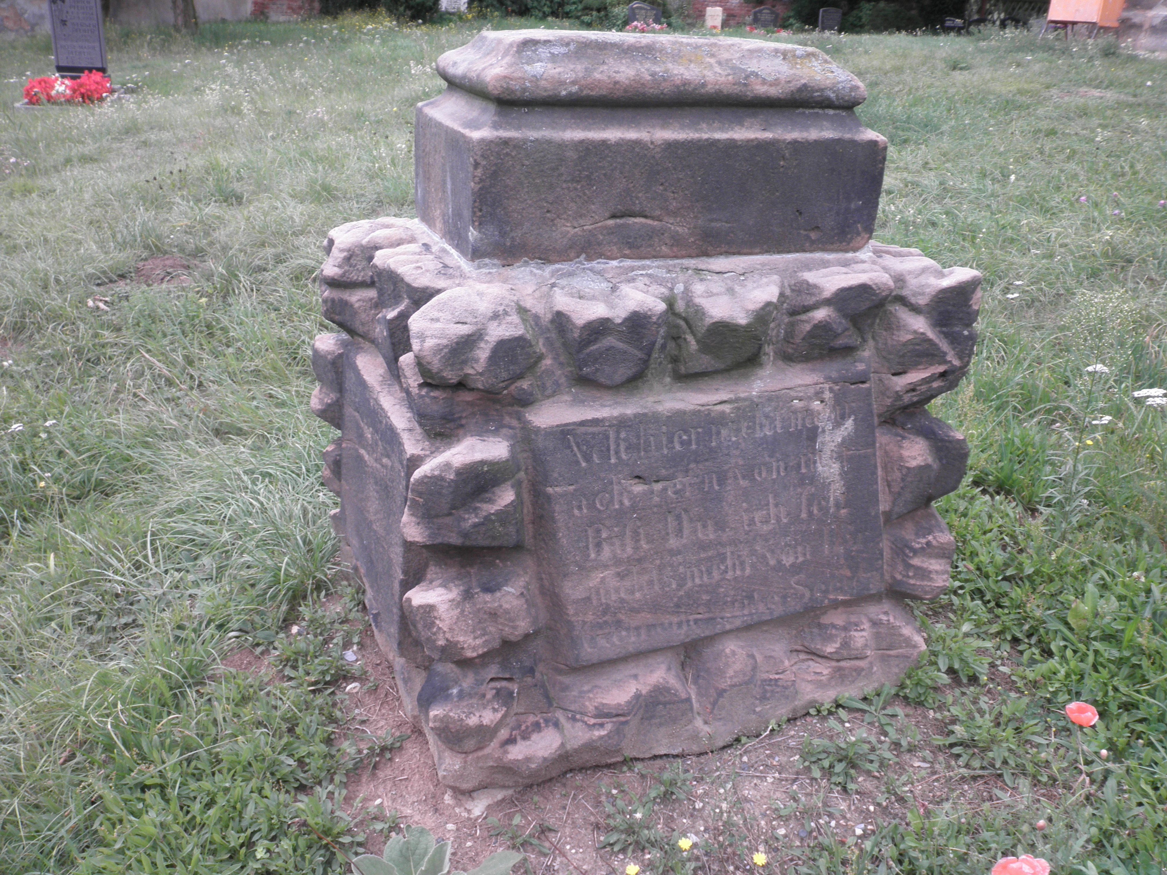 Memorial Stone in Cemetery in Gernewitz in Thuringia